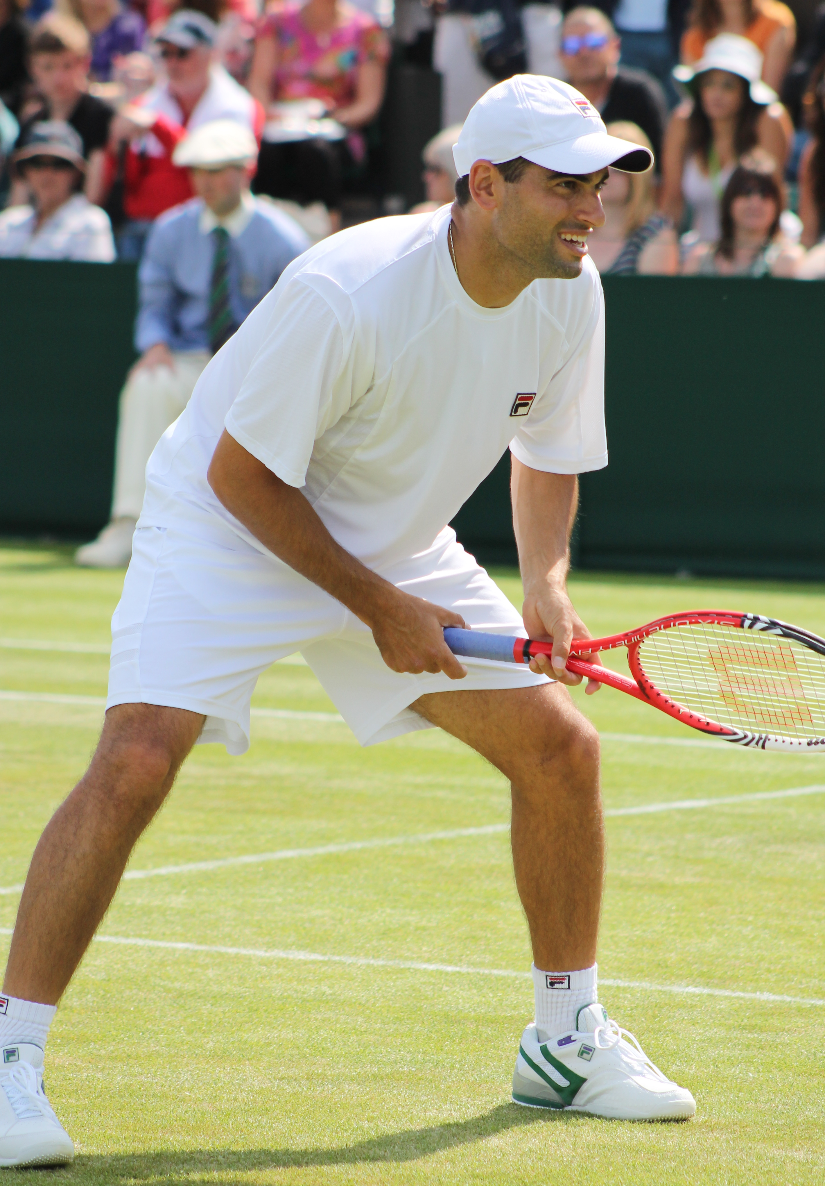 Ram A. WM13-002